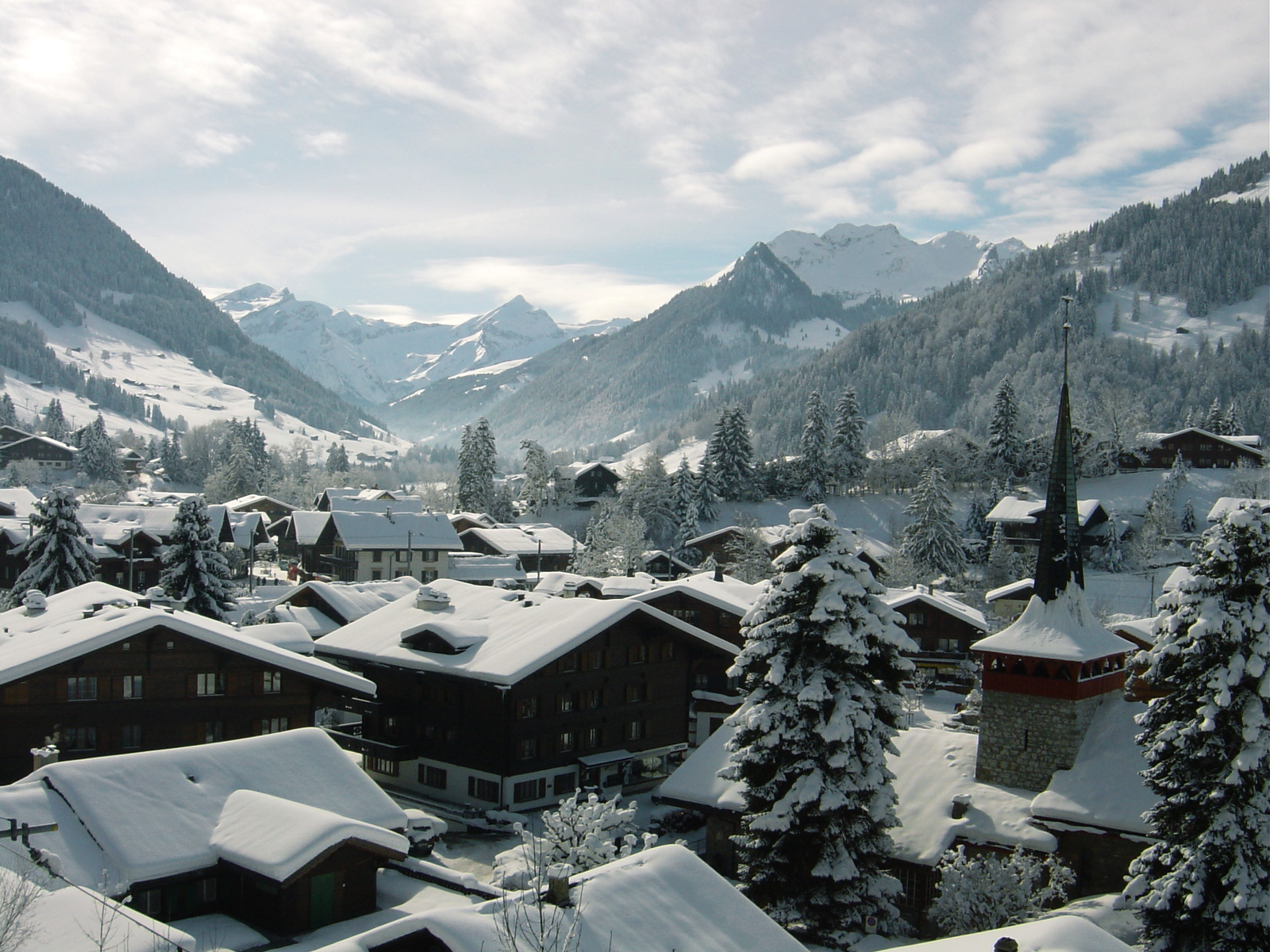 A view over the village Gstaad